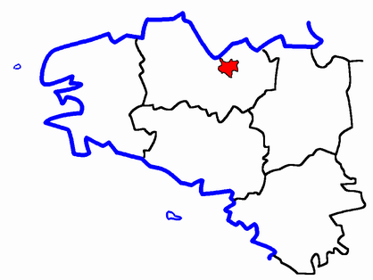 Description: Map for localisazion of cantons of Bretagne region in France Source: made by Hervé Tigier in april 2005 from another large map (published in 1990)